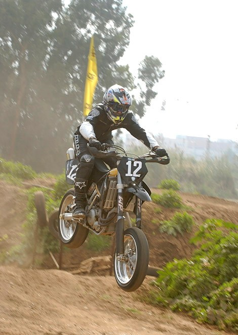 Isreali Super moto rider - Aviad Avrami - Wins the S1 category championship of 2005. Photo by Tal Zohar - Fullgaz.co.il.